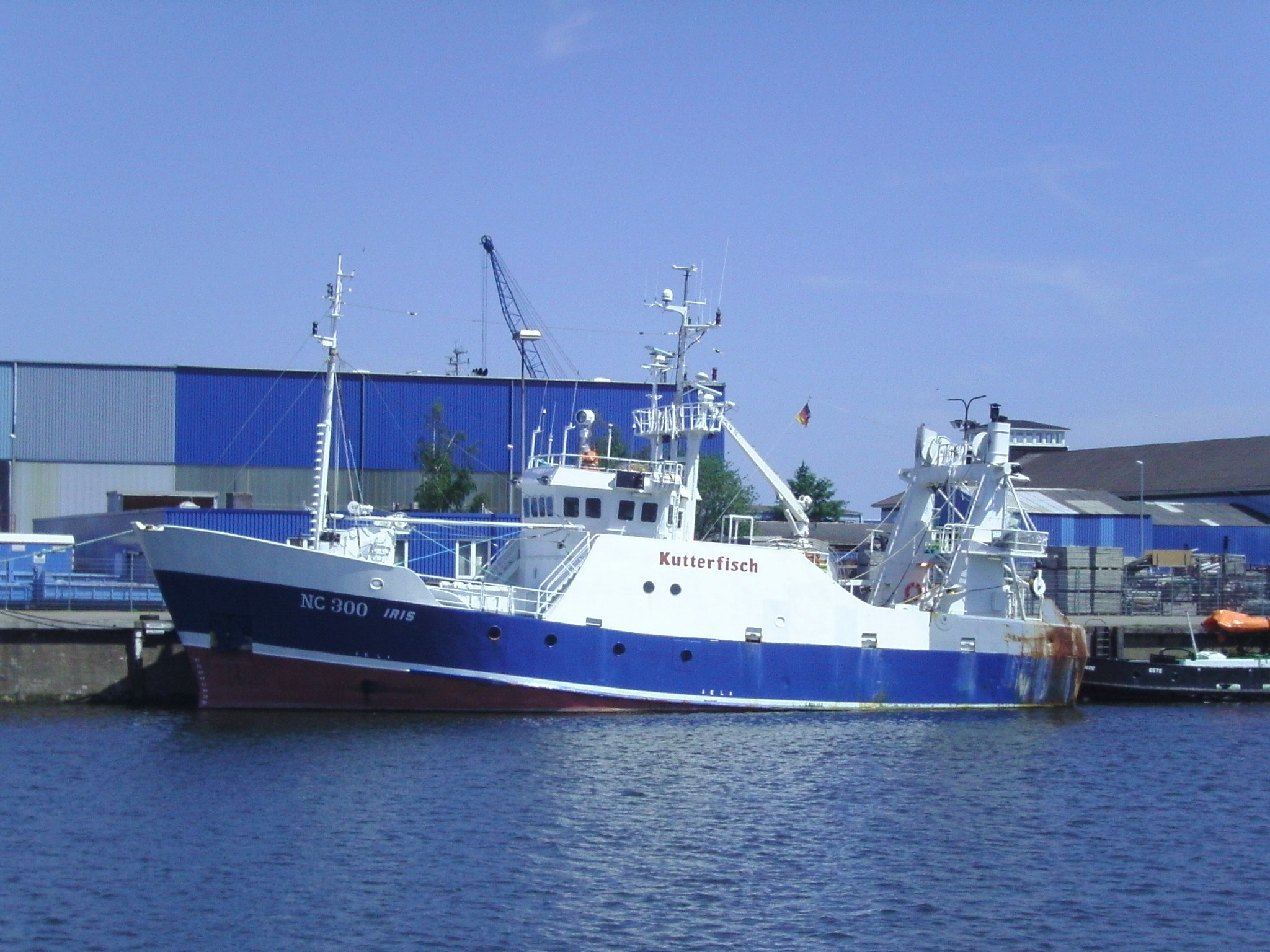 The fishing vessel Iris NC 300 in the port of Cuxhaven